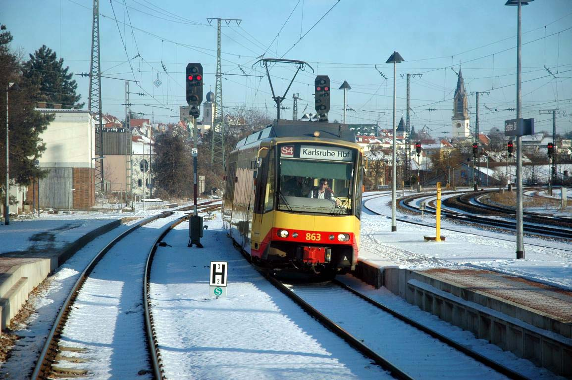 AVG car no. 861 of type GT8-100D, location: Bretten, train number: 85334